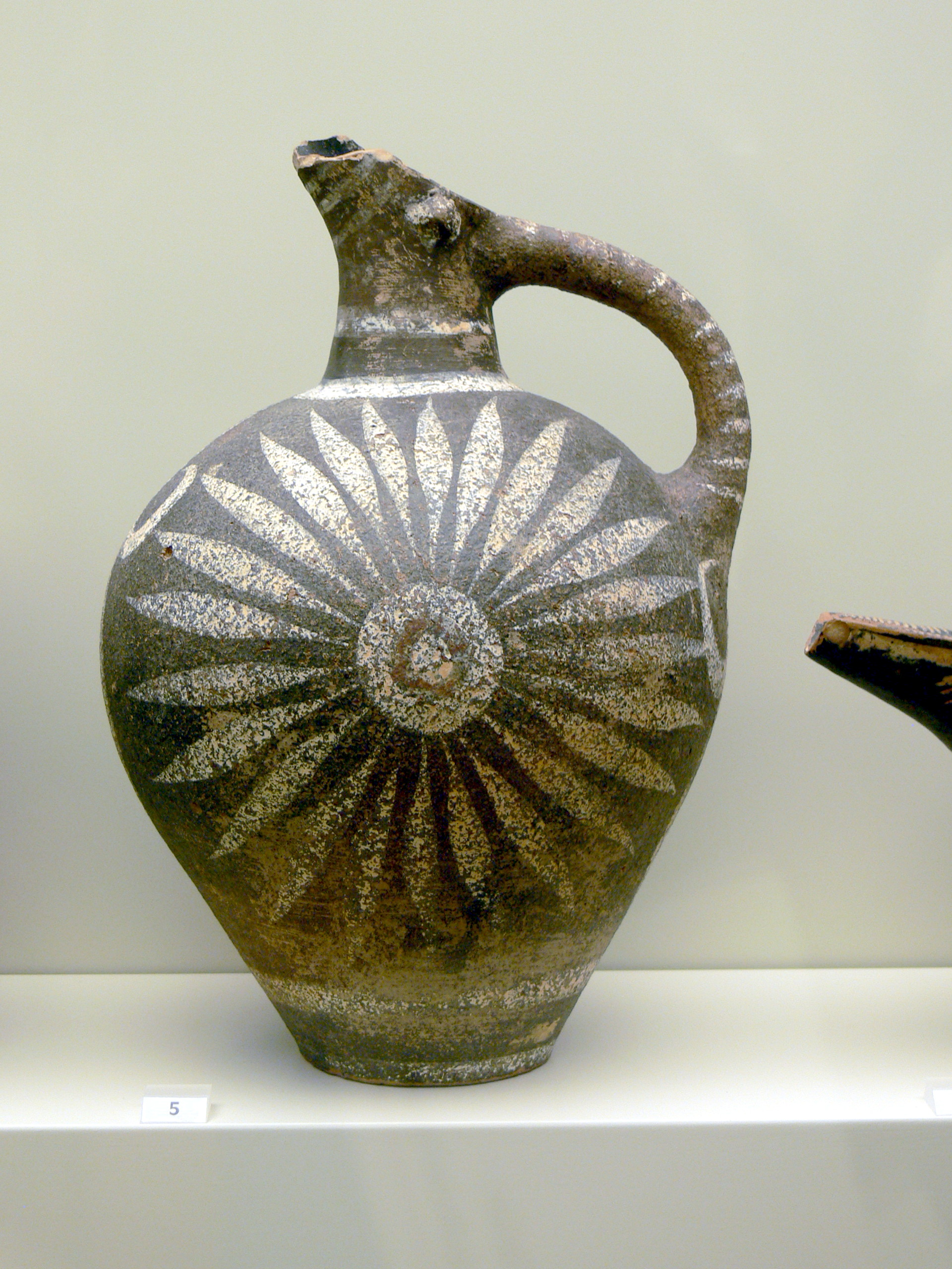 Archaeological Museum of Herakleion. Kamares-style pottery. Old palatial period ( 2100-1700 B.C. )